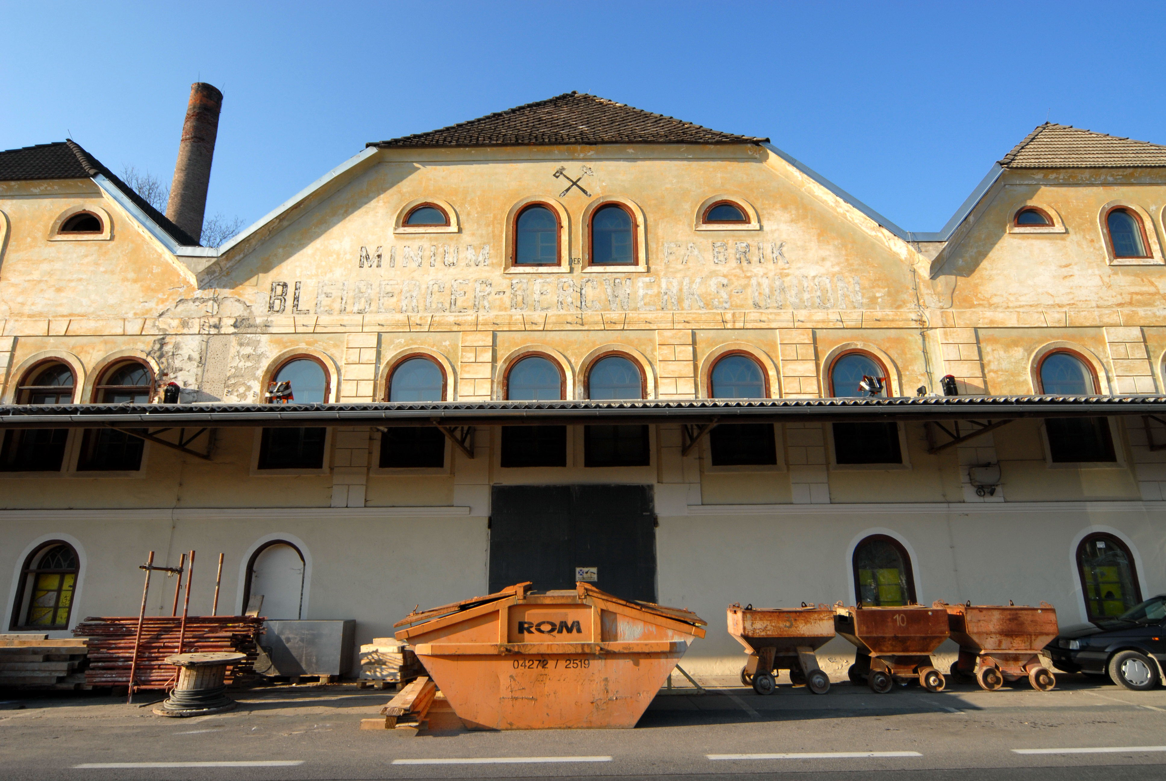 Defunct minium facility of the BBU (Bleiberger Bergwerks Union) in Saag, municipality Techelsberg, district Klagenfurt Land, Carinthia, Austria, EU